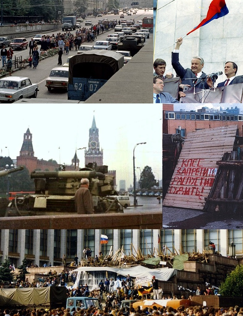 Montage of events of August 1991 in Moscow, known as the August Coup.